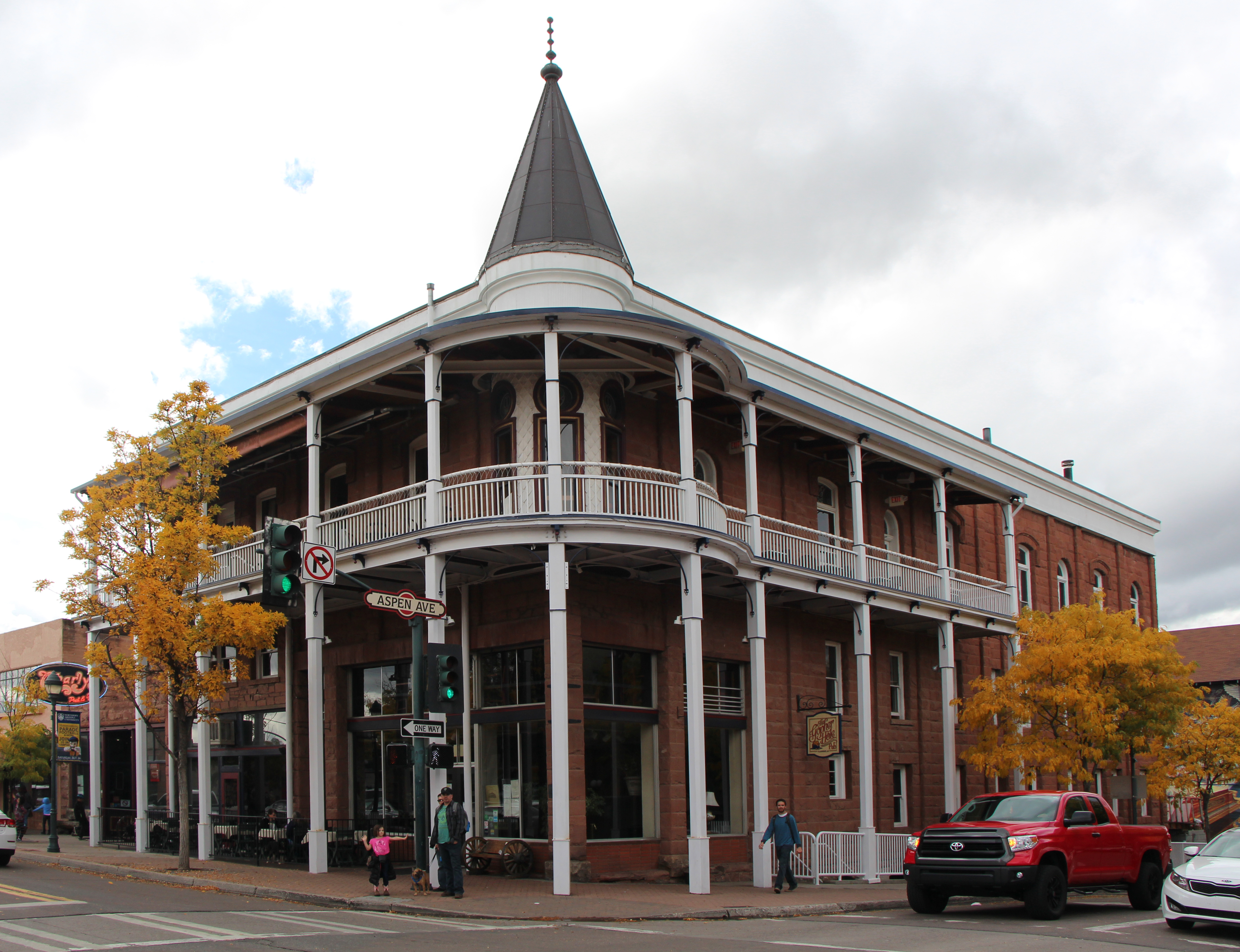 Weatherford Hotel, 23 N Leroux St, Flagstaff, AZ